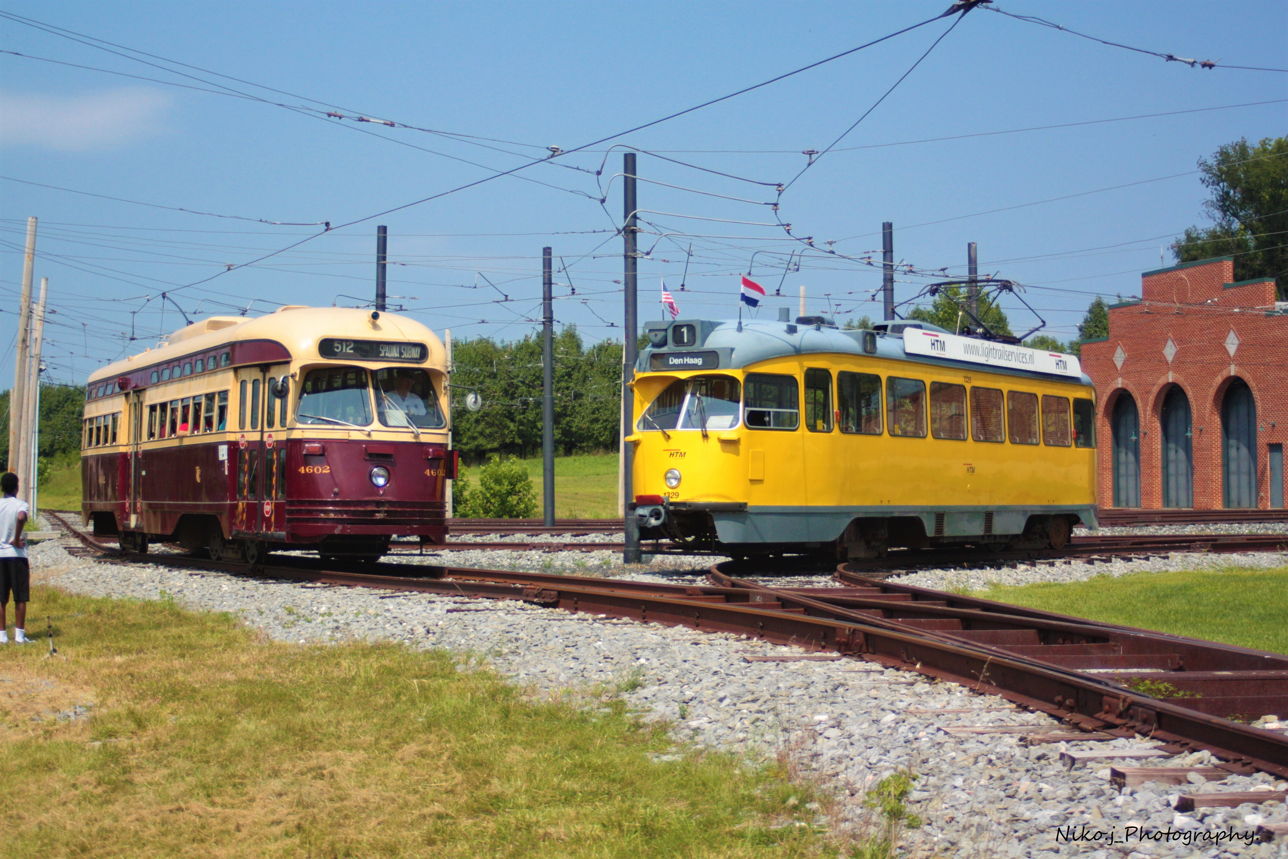 Roaster Photo